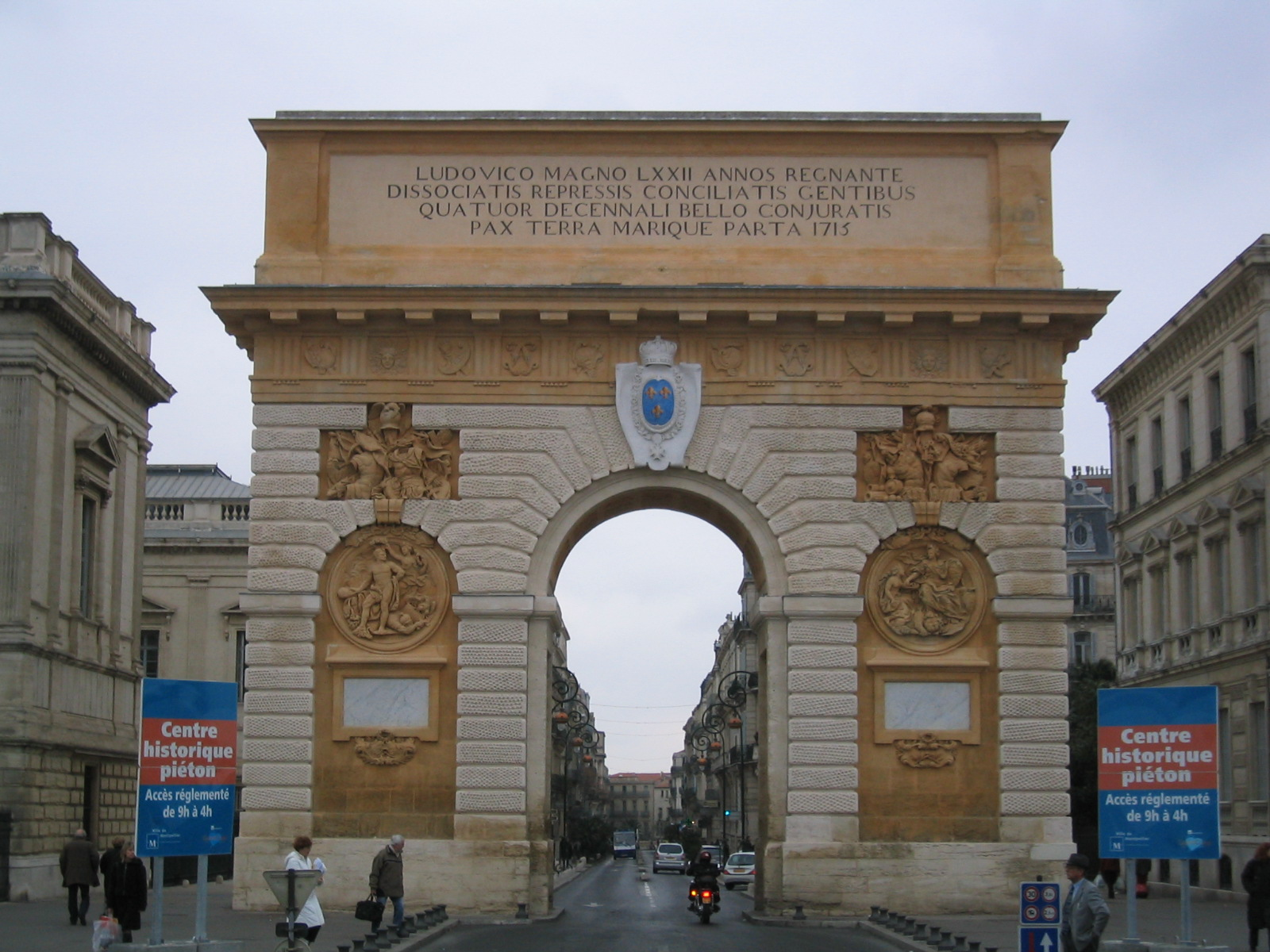 Porte du Peyrou in Montpellier, France.